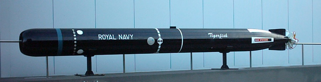 Taken by Rob Neild, 3 December 2005, at National Submarine Musueum, UK (Gosport).